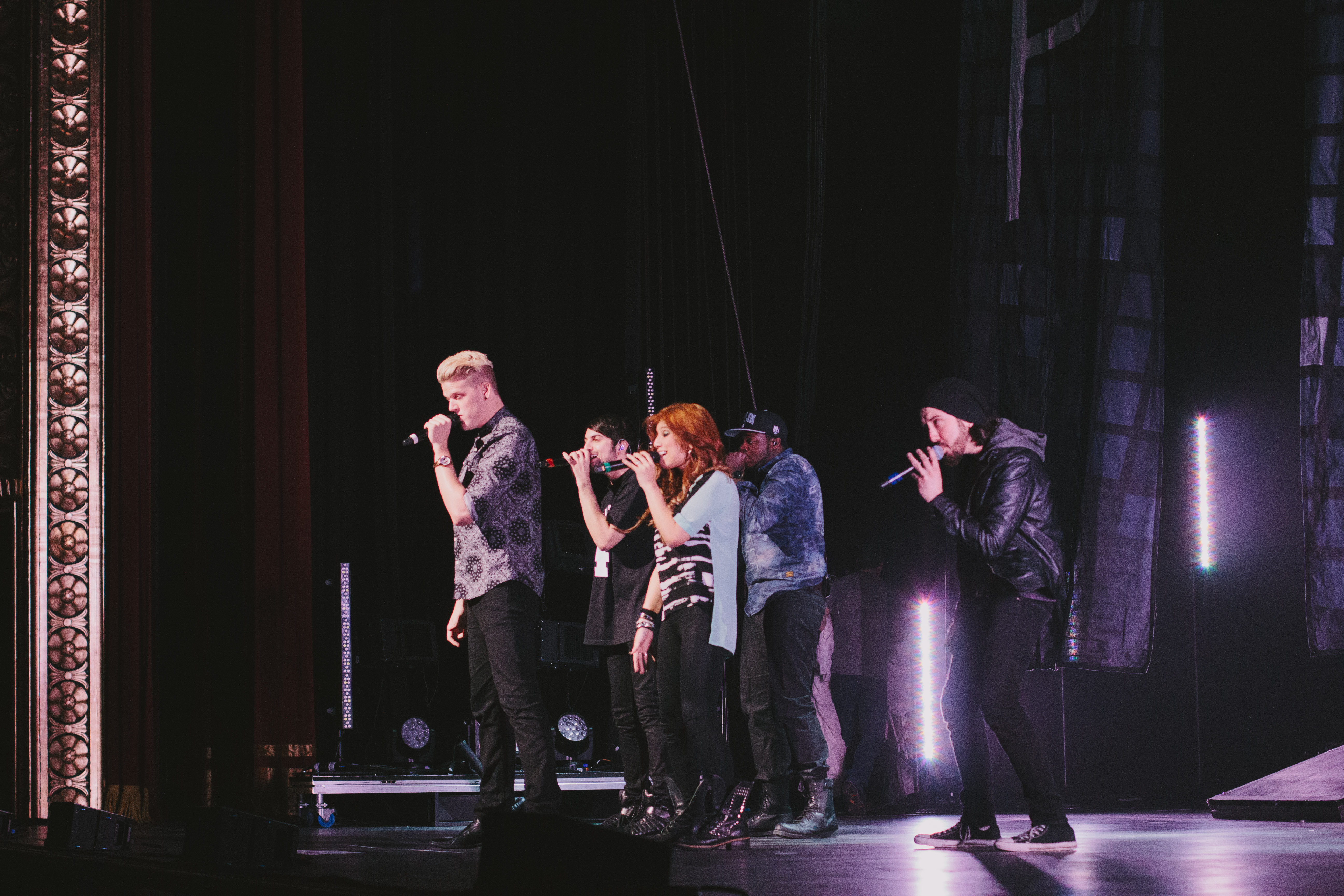 Pentatonix performing at the Peabody in St. Louis, Missouri.